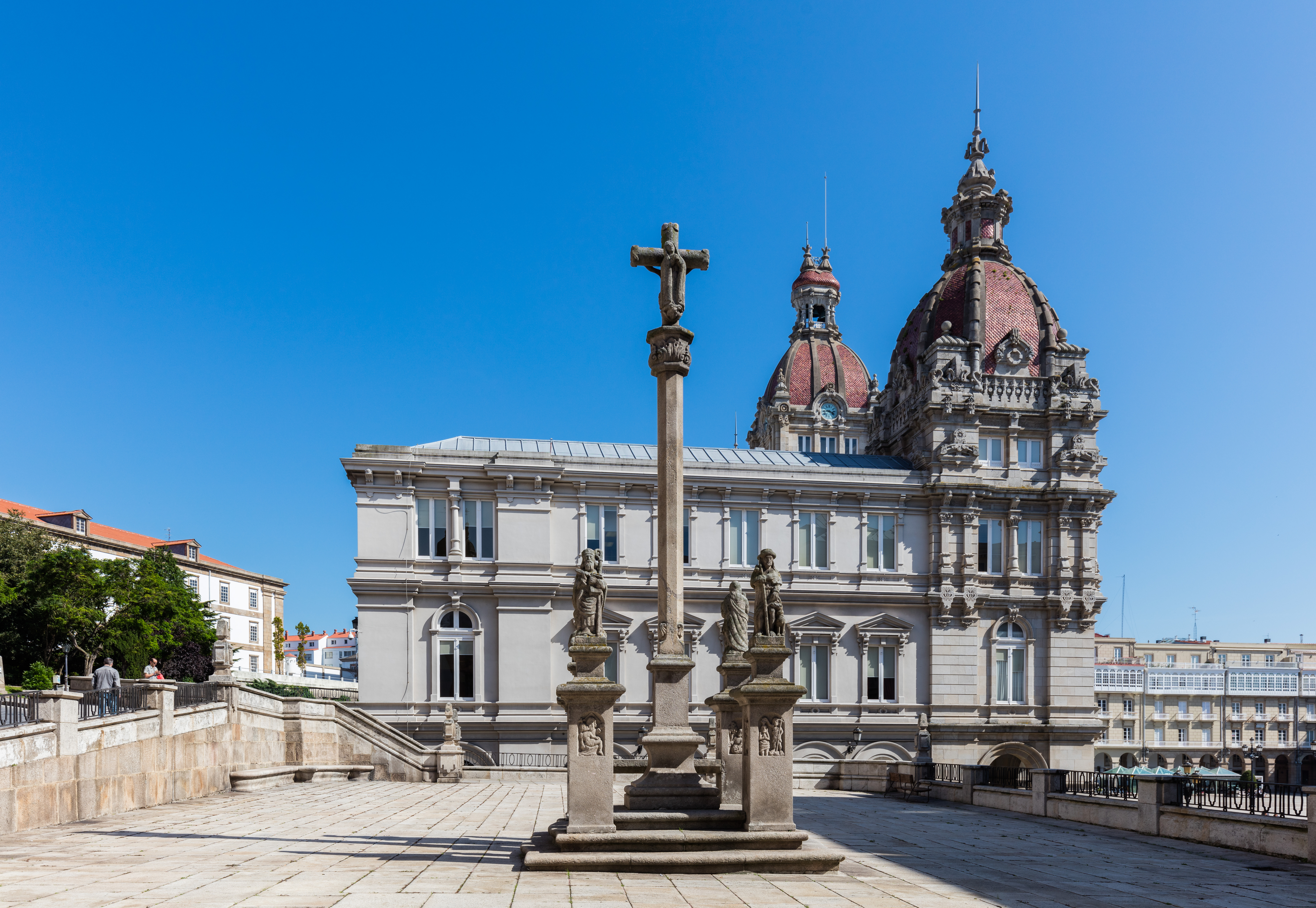 Calvary of St George church, La Coruña, Spain.